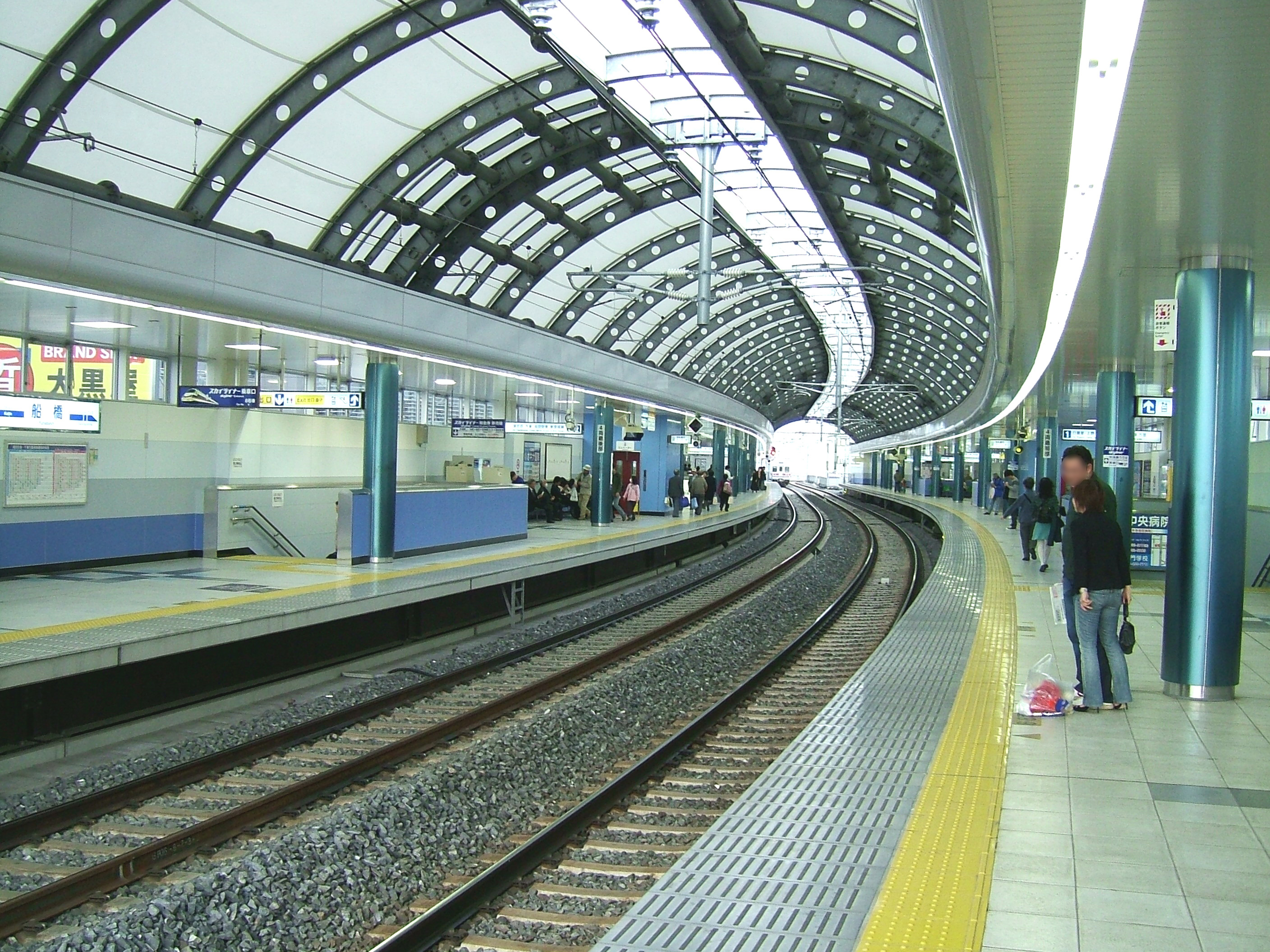 The platforms at Keisei Funabashi Station